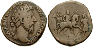 MARCUS AURELIUS. 161-180 AD. Æ Sestertius (29mm, 25.04 gm). Struck 170 AD. Laureate head right Marcus on horseback right, holding spear, preceeded by soldier holding spear and shield; three soldiers follow emperor. RIC III 977; MIR 18, 191-6/30; Cohen 502. Fine, brown surfaces. From the Lakeview Collection.